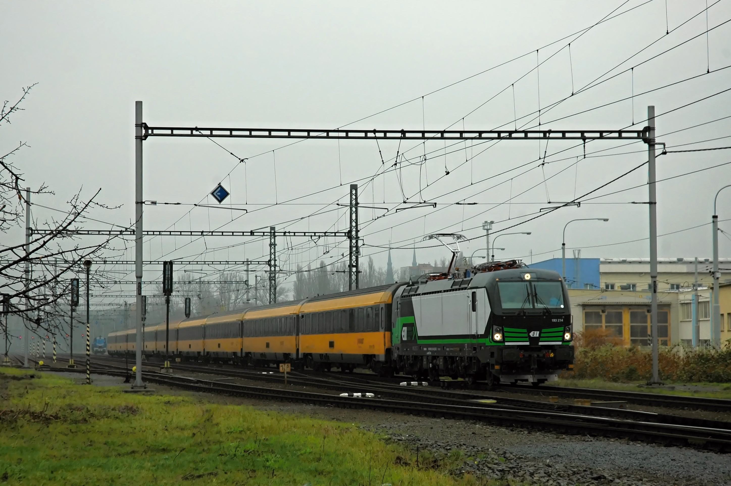 Siemens Vectron No. 193 214 of ELL Austria, hired to Regiojet, train IC 1005 Regiojet from Praha hlavní nádraží to Havířov; the photo was taken at Ostrava báňské nádraží VOK station, Czech Republic